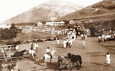 Pioneers in Kibbutz Ein Harod , Settlements in Israel